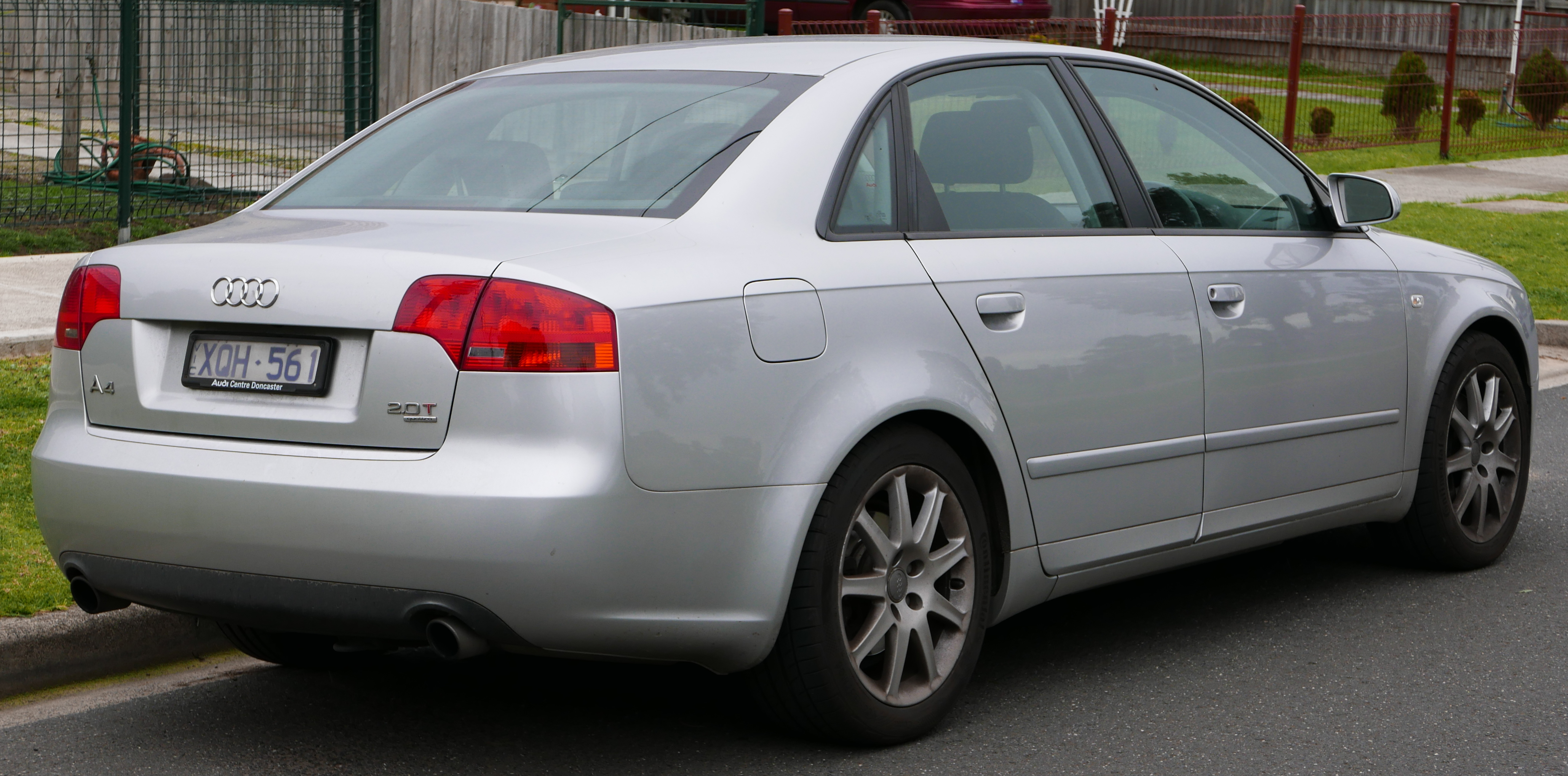 2005 Audi A4 (8EC) 2.0 TFSI quattro sedan. Photographed in Ivanhoe, Victoria, Australia. Vehicle registration enquiry results Jurisdiction Victoria Registration XQH561 Chassis code WAUZZZ8E95A522139 Engine code BGB011174 Compliance date 2006-01 Year of manufacture 2005 (not a typo)